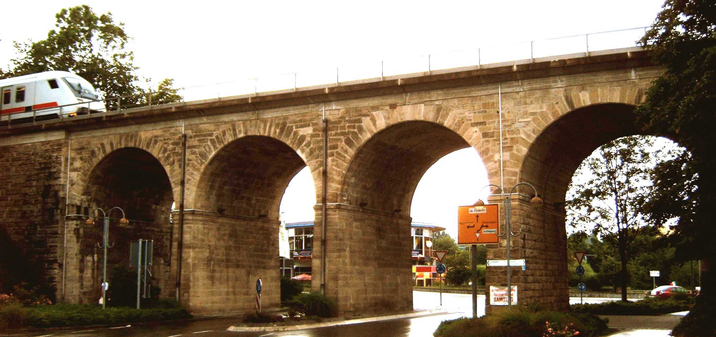 Viaduct of the Remsbahn railway in Weinstadt's borough of Endersbach, Germany. The bridge had been demolished by retreating German troops in 1945 at the close of World War II. Today the third and fourth arch (from the left) are made of concrete with a finishing of stone.